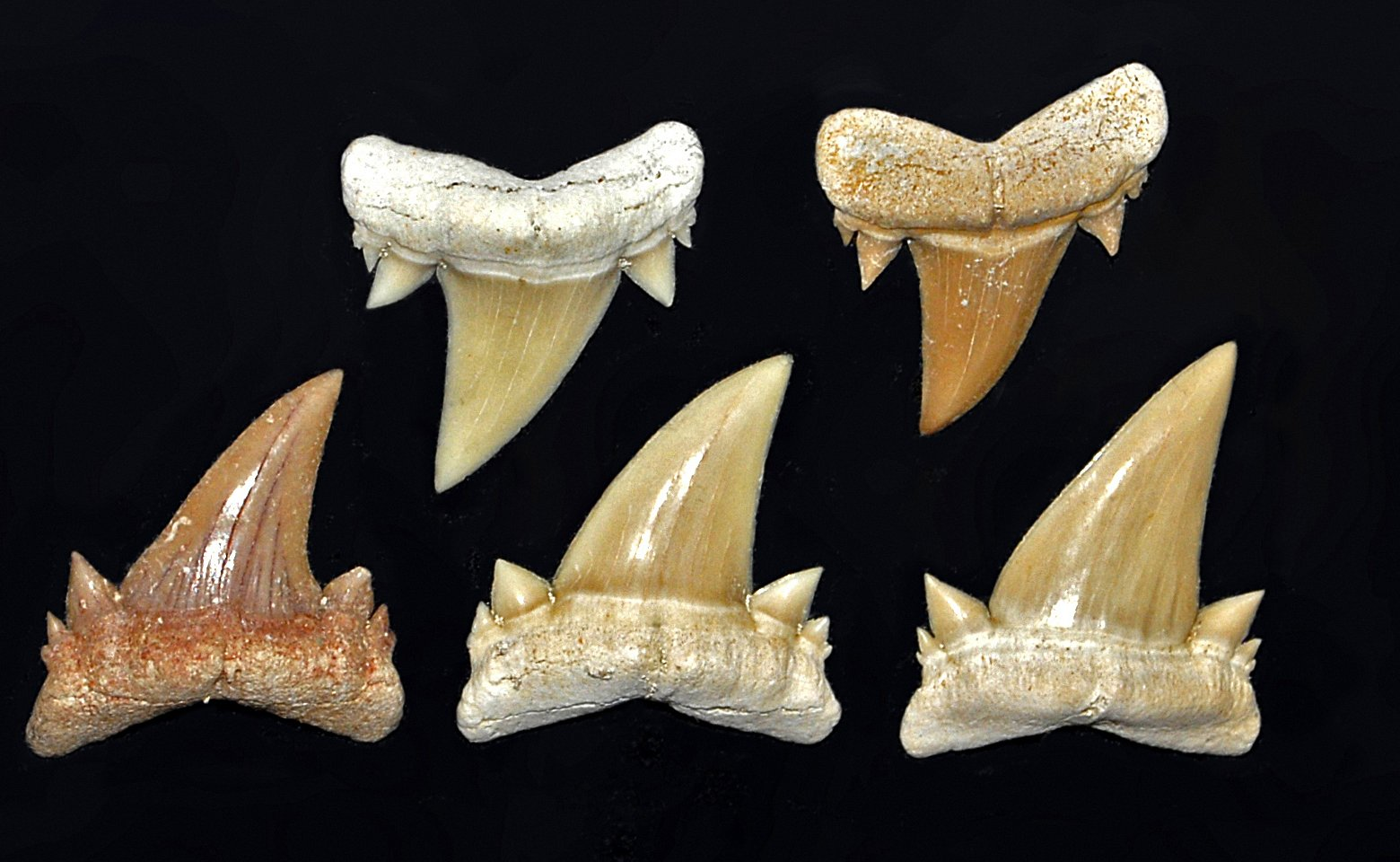 Crop of file in filename